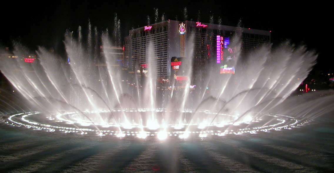 Picture taken by user izx in January 2006. The Fountains of Bellagio at night; The Flamingo and Bally's Casinos are visible on the other side.